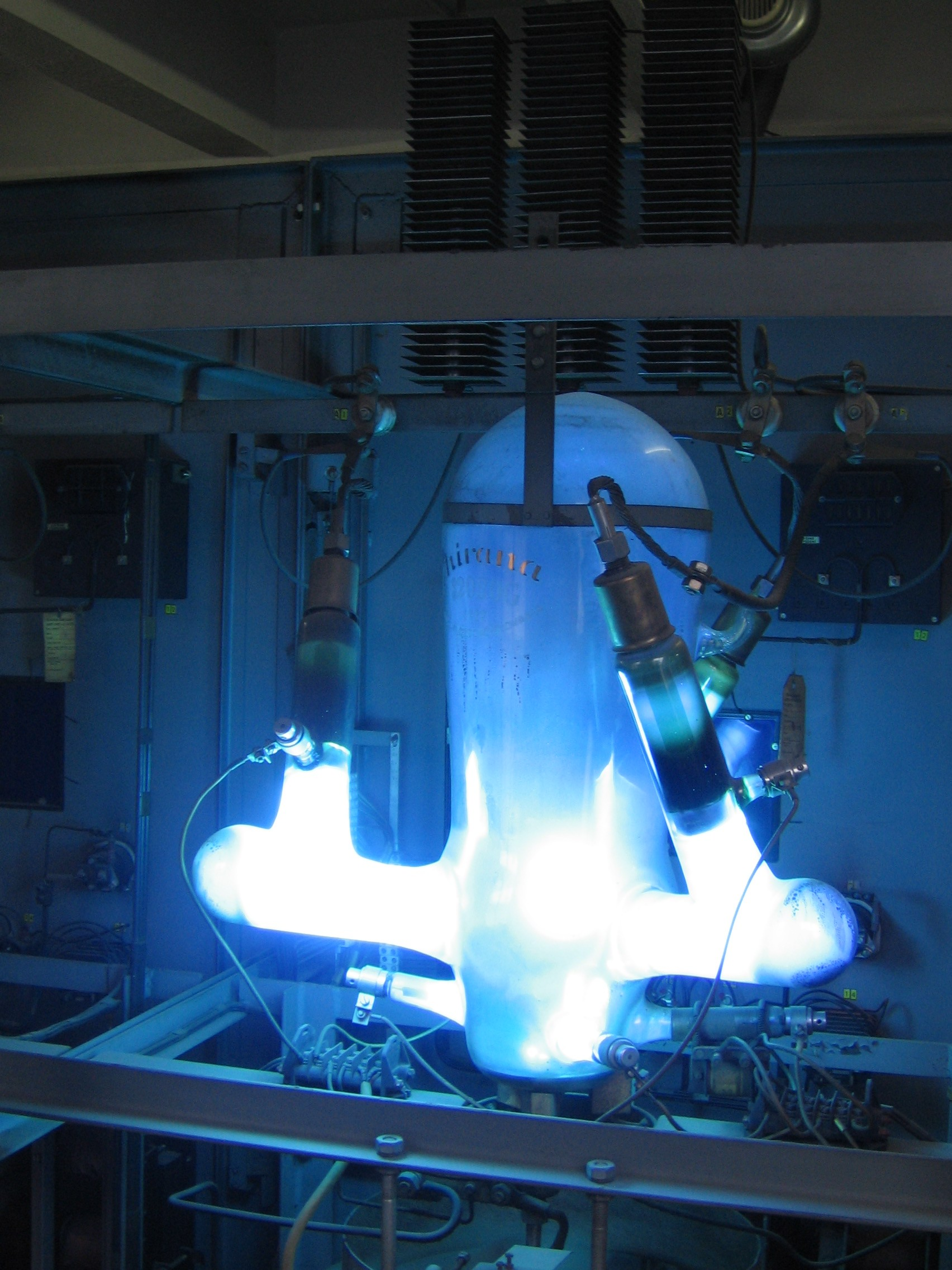 Mercury arc rectifier in Pars nova Šumperk (Czech rep.) for batteries loading